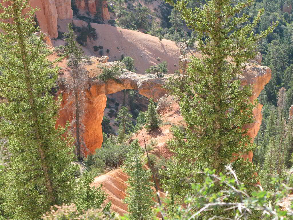 Bryce Canyon National Park, Utah, USA : Pine Forest